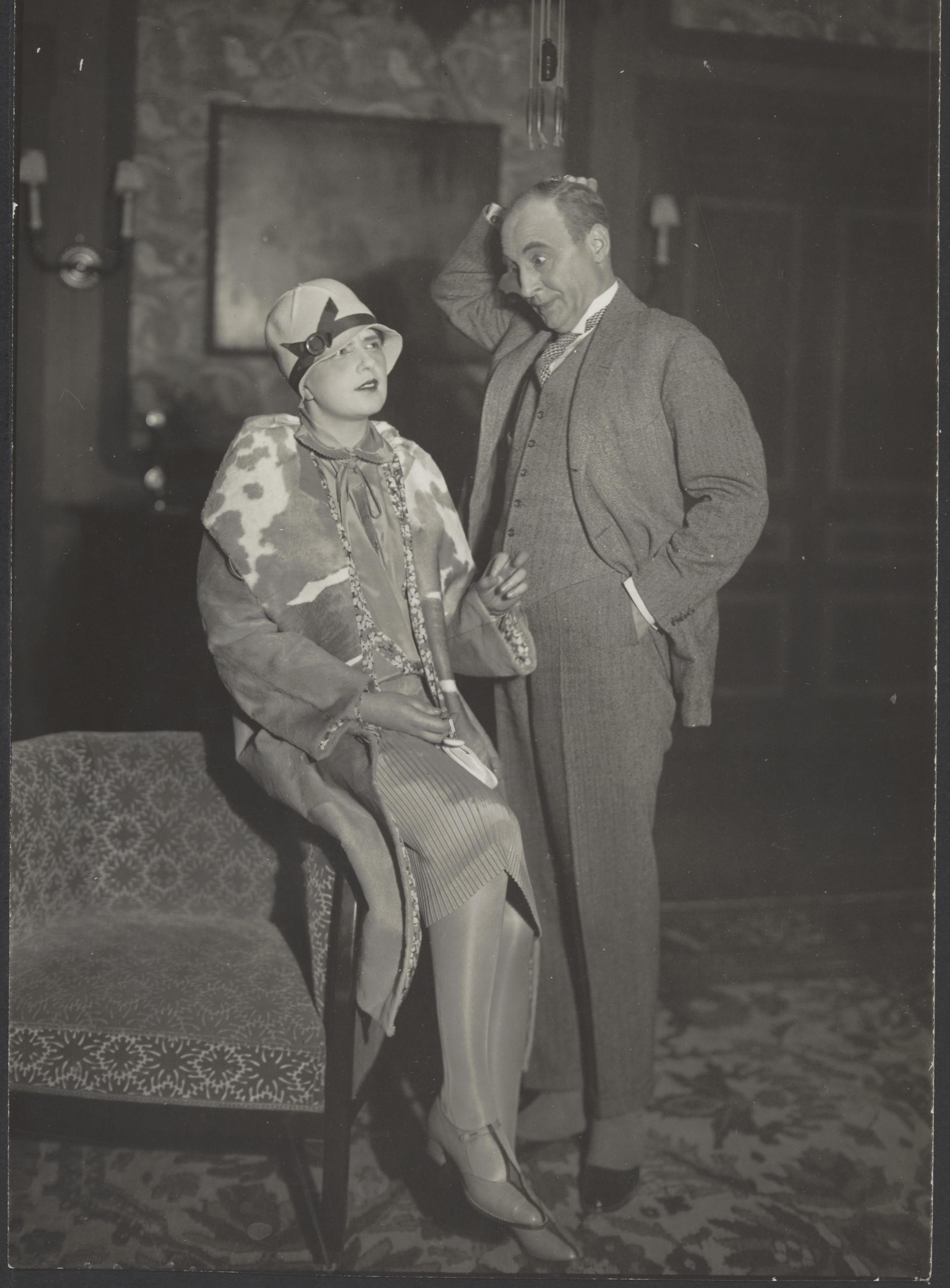 Scenes from plays by the group Het Vereenigd Toneel. Minny ten Hove and Dirk Verbeek.